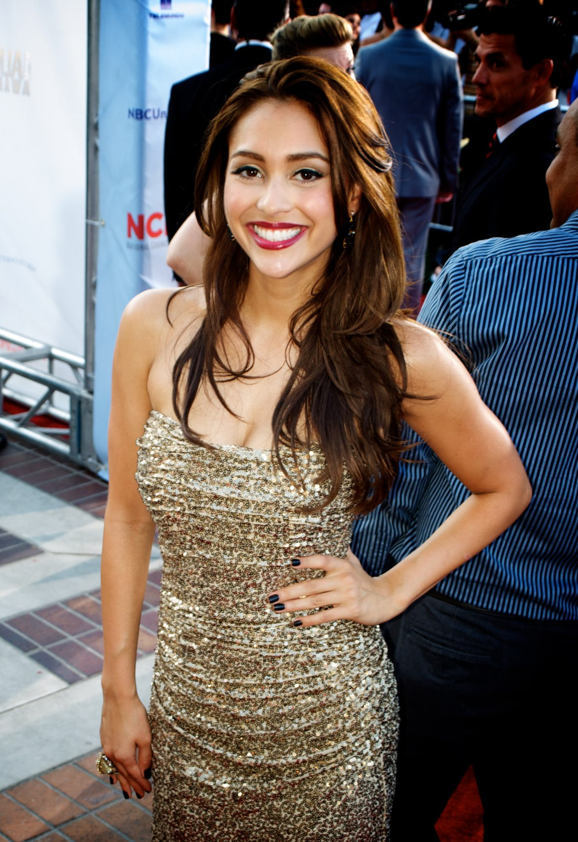 Lindsey Morgan, Alma Awards 2012